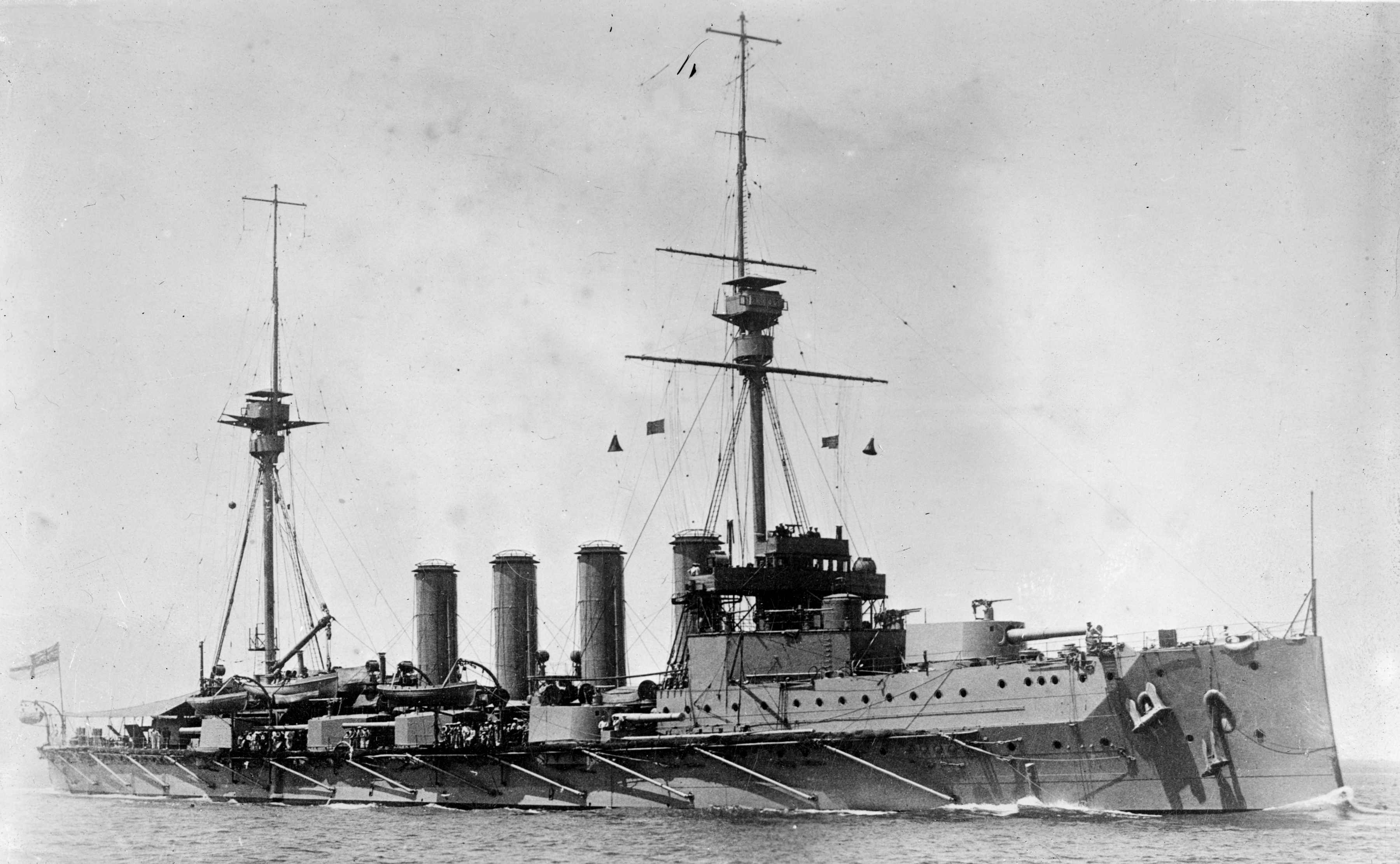 HMS Achilles